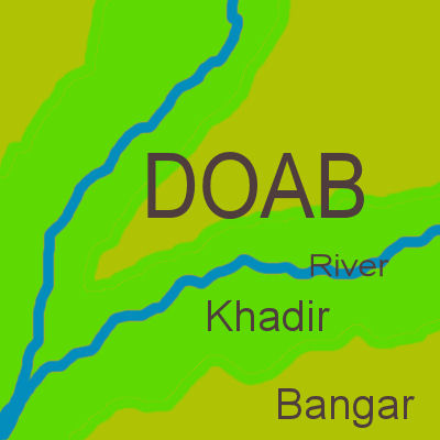 In North India and Pakistan, a doab is the region between two rivers (literally, do=two and ab=water). Khadir is low-lying land next to the river, and is more fertile but prone to flooding. Bangar is higher land further from the river, and is less fertile but also safe from flooding.